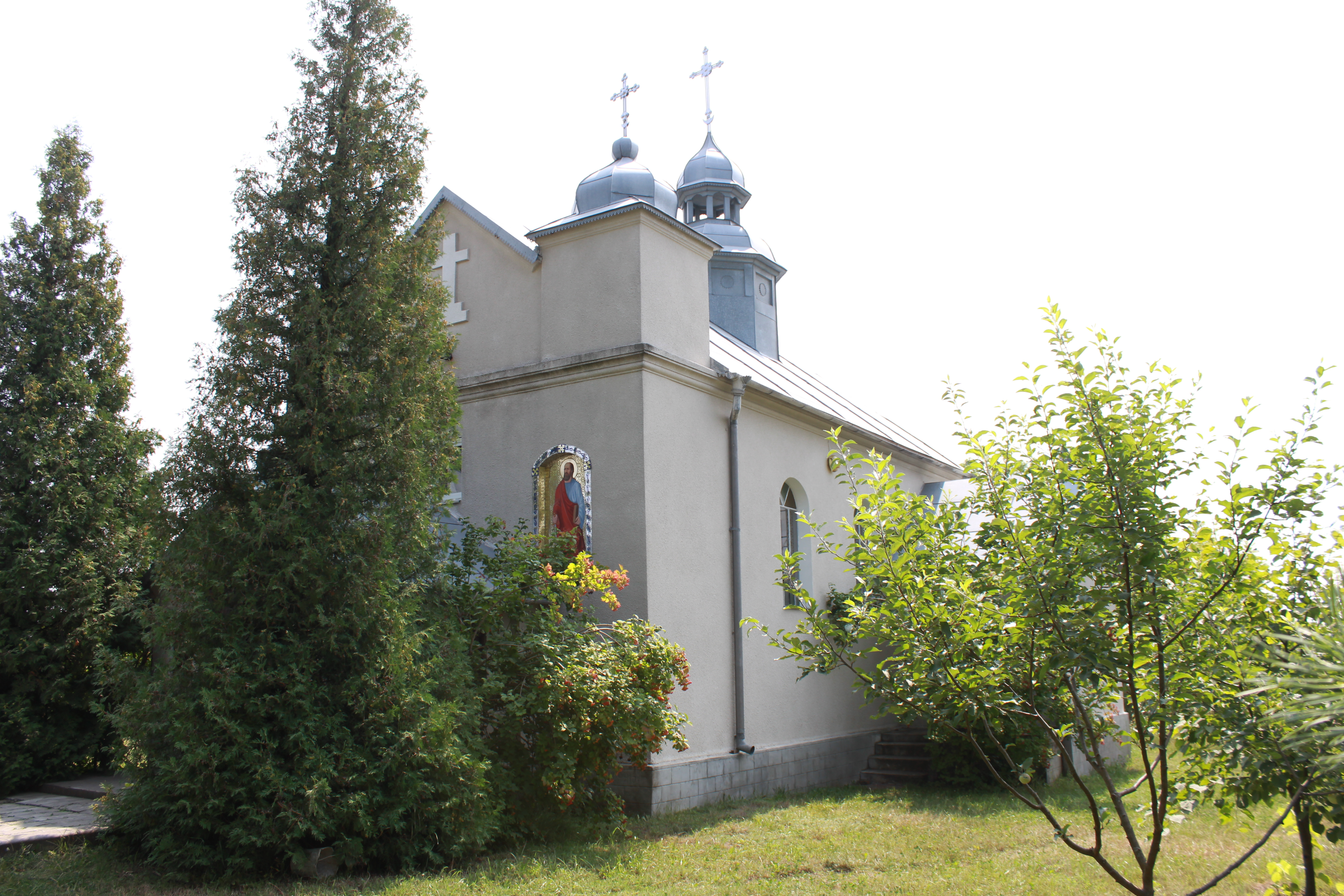 Церква Петра і Павла